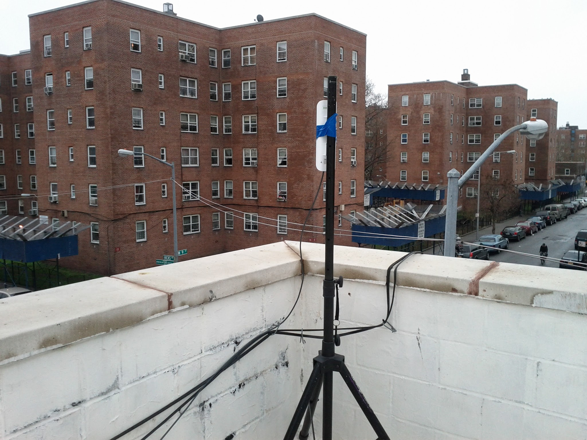 First ever Red Hook WiFi mesh network node (Ubiquiti Nanostation) installation on the Red Hook Initiative rooftop, which now connects to other nodes north of Coffey Park. Tape was eventually replaced with zip ties and sandbags were added to tripod base to keep sturdy during storms.